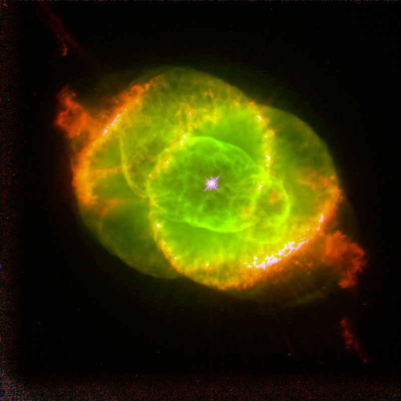 This NASA Hubble Space Telescope image shows one of the most complex planetary nebulae ever seen, NGC 6543, nicknamed the "Cat's Eye Nebula." Hubble reveals surprisingly intricate structures including concentric gas shells, jets of high-speed gas and unusual shock-induced knots of gas. Estimated to be 1,000 years old, the nebula is a visual "fossil record" of the dynamics and late evolution of a dying star. A preliminary interpretation suggests that the star might be a double-star system. The suspected companion star also might be responsible for a pair of high-speed jets of gas that lie at right angles to this equatorial ring. If the companion were pulling in material from a neighboring star, jets escaping along the companion's rotation axis could be produced. These jets would explain several puzzling features along the periphery of the gas lobes. Like a stream of water hitting a sand pile, the jets compress gas ahead of them, creating the "curlicue" features and bright arcs near the outer edge of the lobes. The twin jets are now pointing in different directions than these features. This suggests the jets are wobbling, or precessing, and turning on and off episodically. This color picture, taken with the Wide Field Planetary Camera-2, is a composite of three images taken at different wavelengths. (red, hydrogen-alpha; blue, neutral oxygen, 6300 angstroms; green, ionized nitrogen, 6584 angstroms). The image was taken on September 18, 1994. NGC 6543 is 3,000 light-years away in the northern constellation Draco. The term planetary nebula is a misnomer; dying stars create these cocoons when they lose outer layers of gas. The process has nothing to do with planet formation, which is predicted to happen early in a star's life.